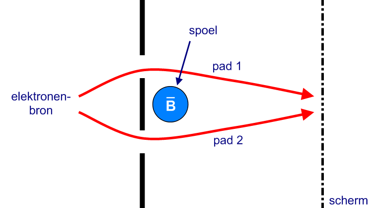 Experimental setup to detect the magnetic Aharonov-Bohm effect.